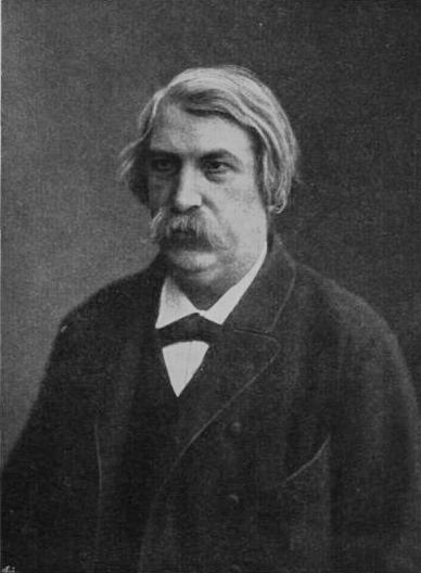 Portrait of Frigyes Ákos Hazslinszky